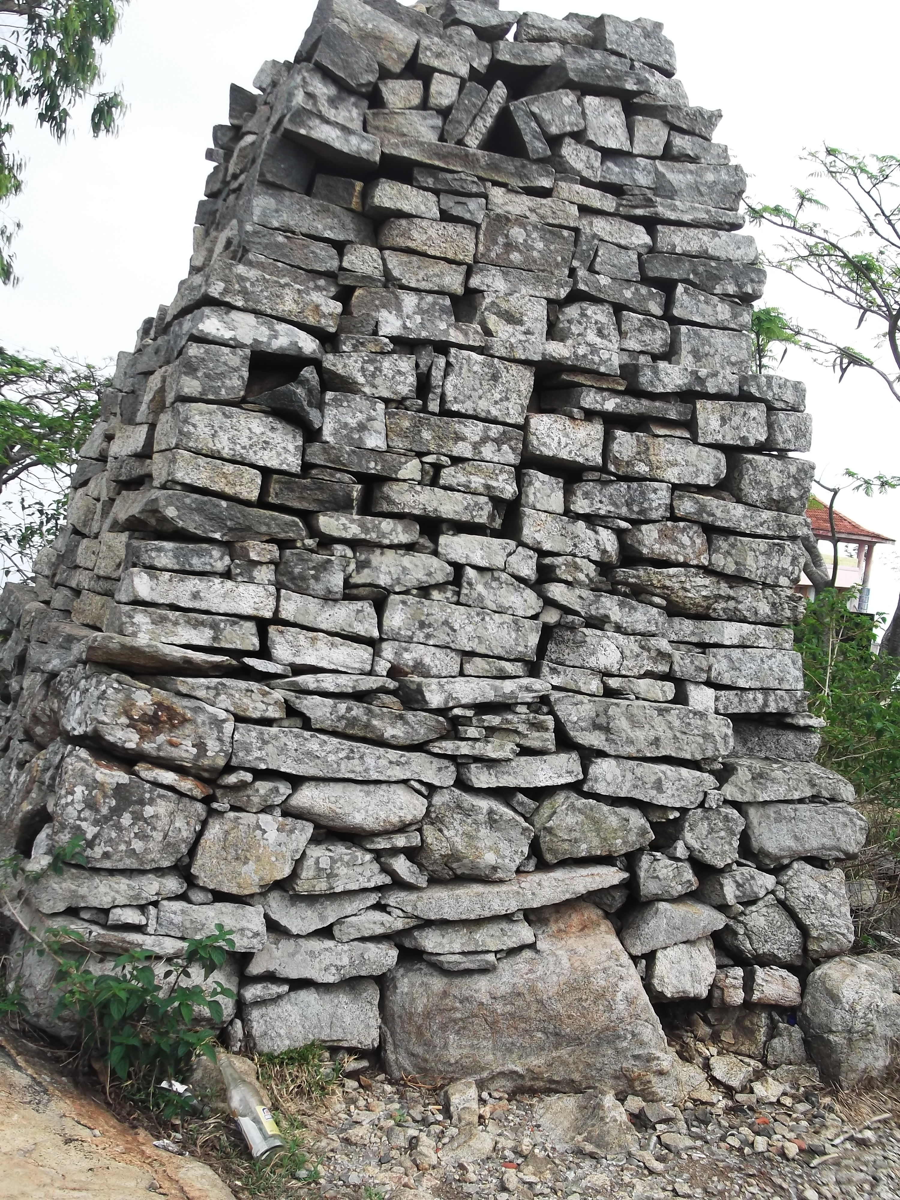 4000 YEARS OLD,A historic place with an ancient stone temple,previsely known as pyrimid point.It is nearly 4500 ft above sea leavel.